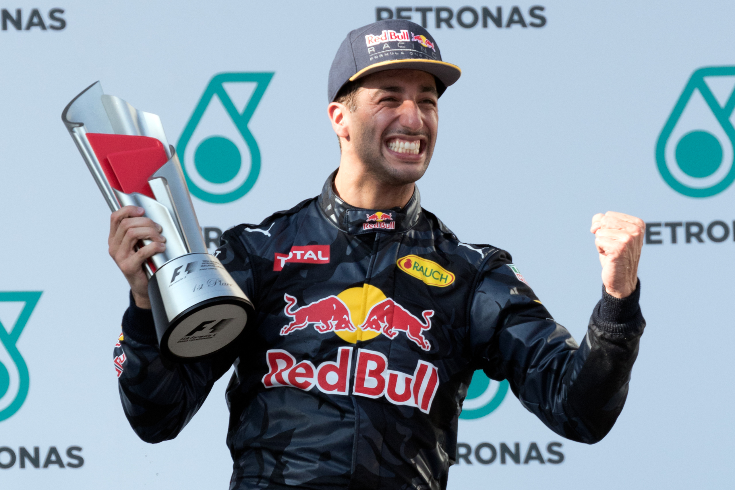 Formula One 2016 Rd.16 Malaysian GP: Daniel Ricciardo (Red Bull Racing)